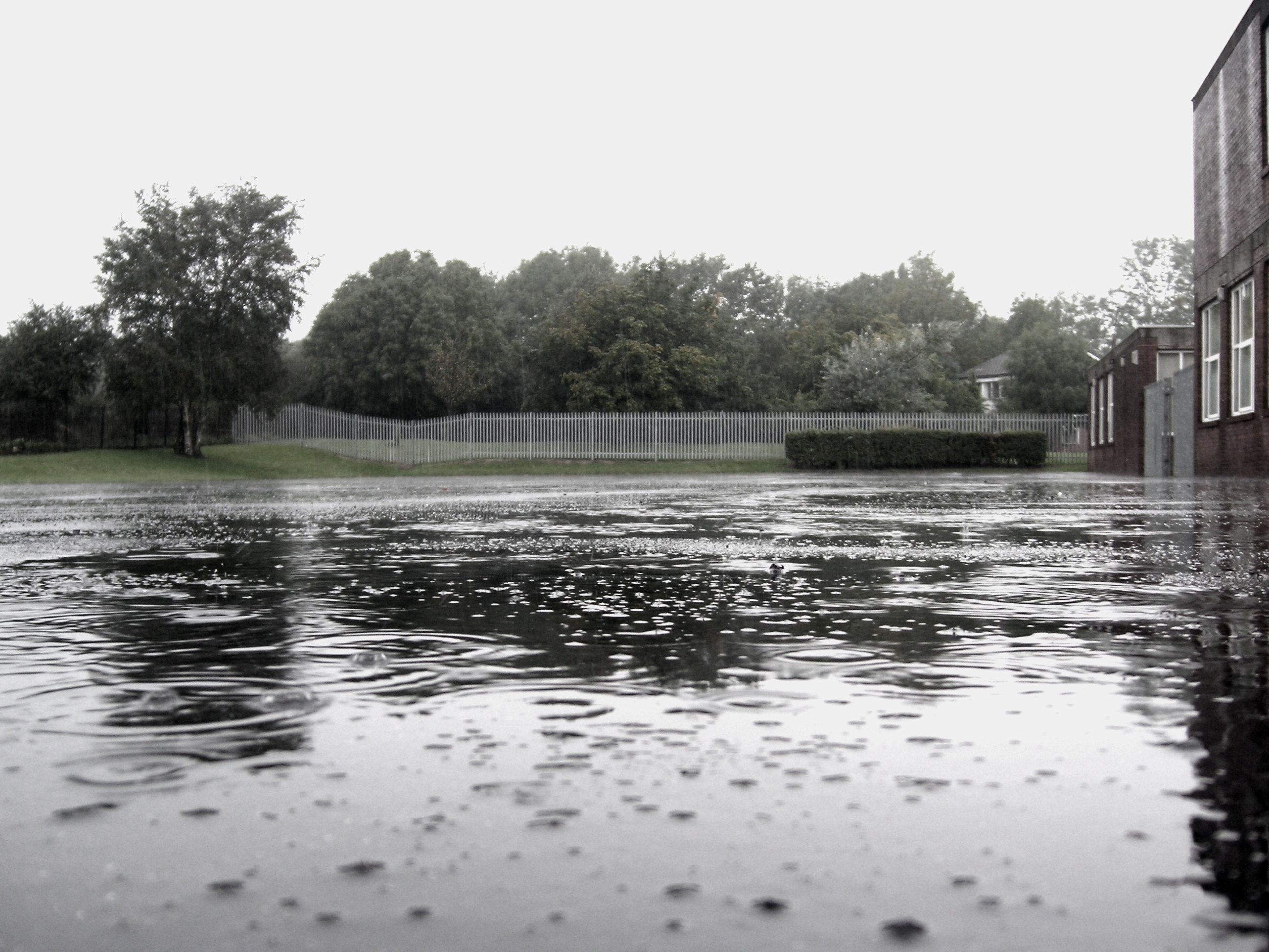 Photograph by Alex Buirds.